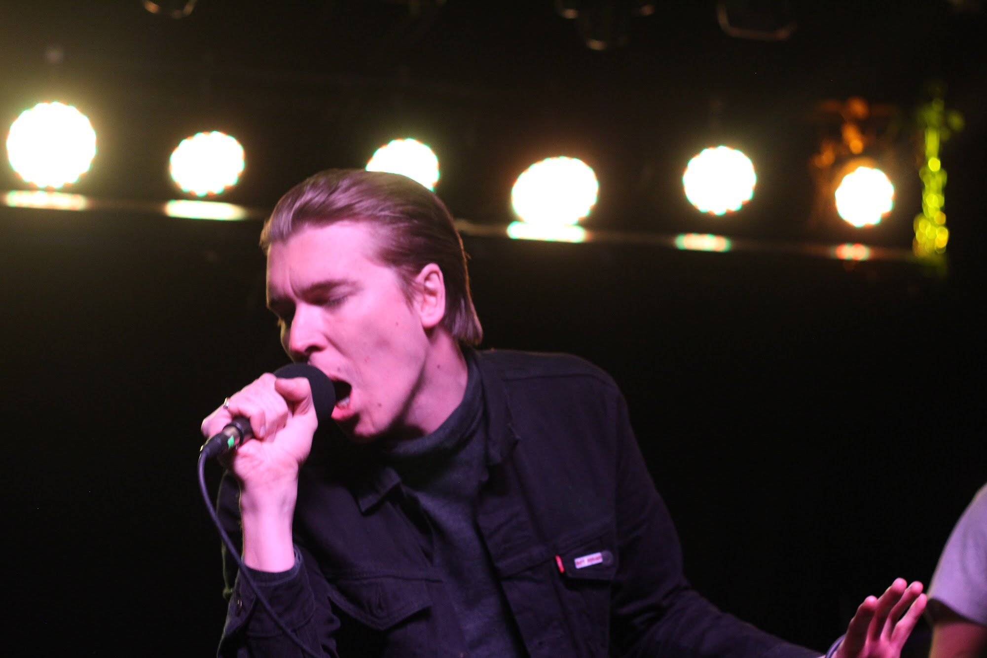 Alex Cameron - Globe Hall - 03.05.18